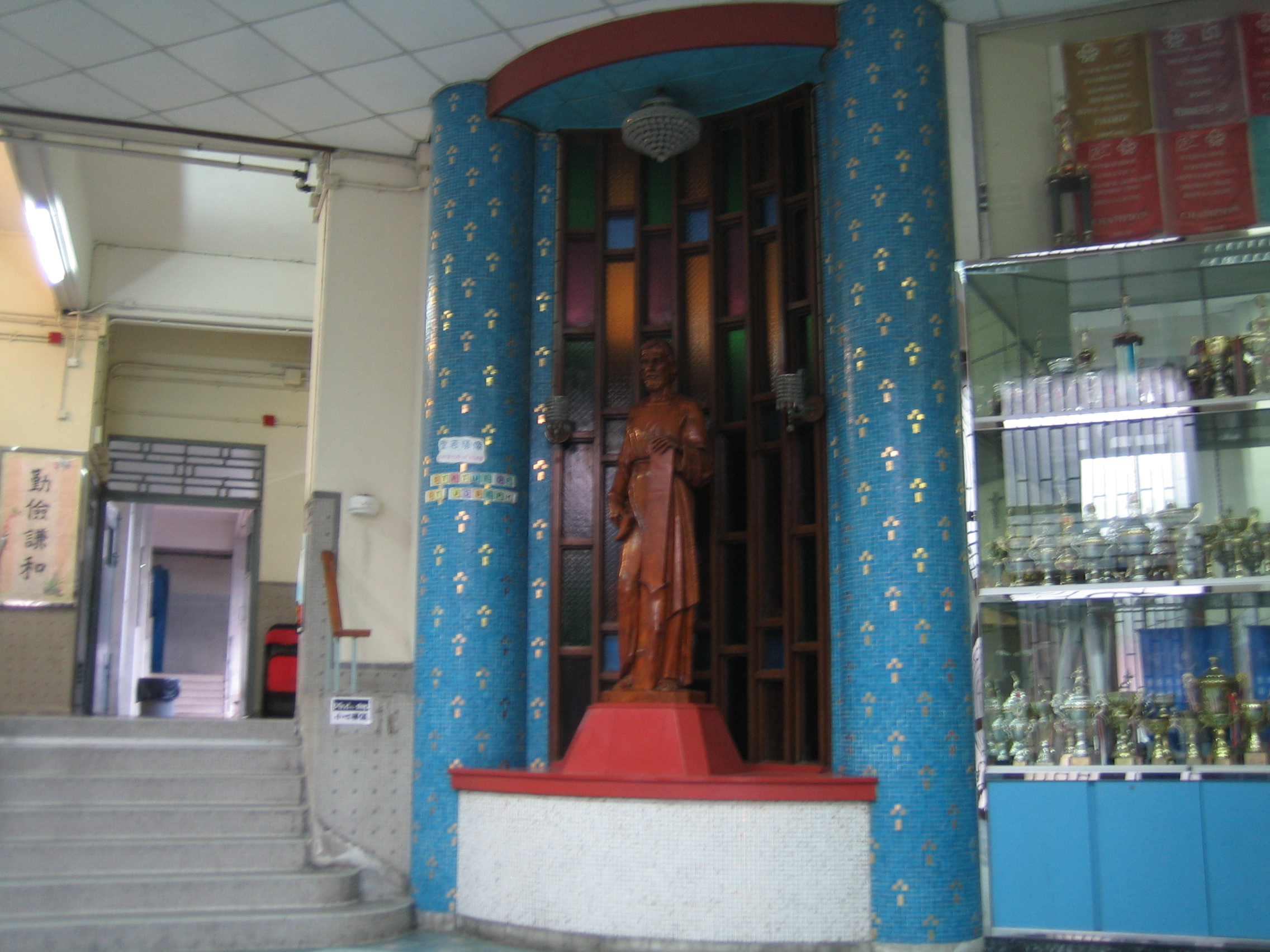 This image is the Statue of St. Joseph of SJACS campus, Hong Kong. If you have any questions about the licensing (like cc-by-sa, GFDL), or you want to republish the image without using the licensing shown as below, you are welcome to leave a message on the User Talk Page of my Chinese Wikipedia account. 中文（香港）: 這照片是香港九龍聖若瑟英文中學現有校舍聖若瑟像。 如你對這照片版權許可協議 (例cc-by-sa, GFDL) 有疑問，或你想把照片不用以下的版權協議轉載，歡迎你到我在中文維基百科的用戶對話頁留言。